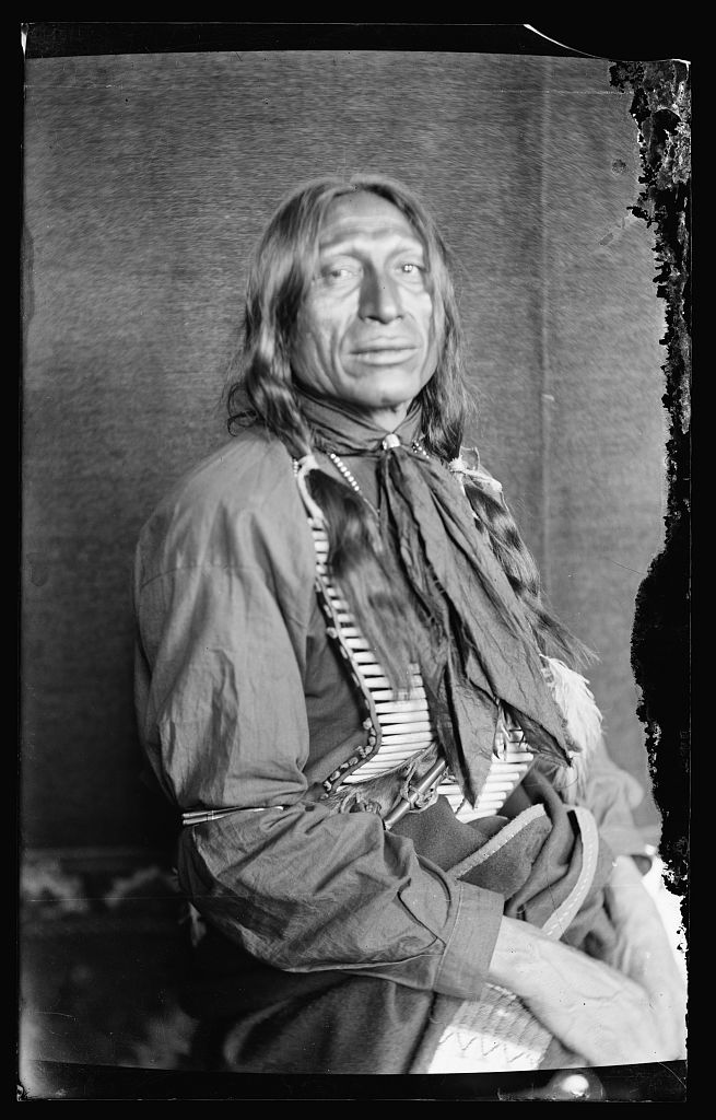 Title: Chief Iron Tail, a Sioux Indian from Buffalo Bill's Wild West Show Abstract/medium: 1 negative : glass, dry plate ; 8 x 10 in.